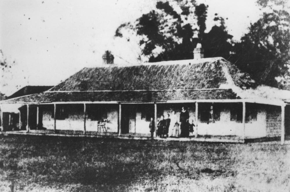 Homestead on Beaudesert Station, Brisbane, ca. 1871 Property of William Duckett White, probably photographed by W. Boag. (Description supplied with photograph.).